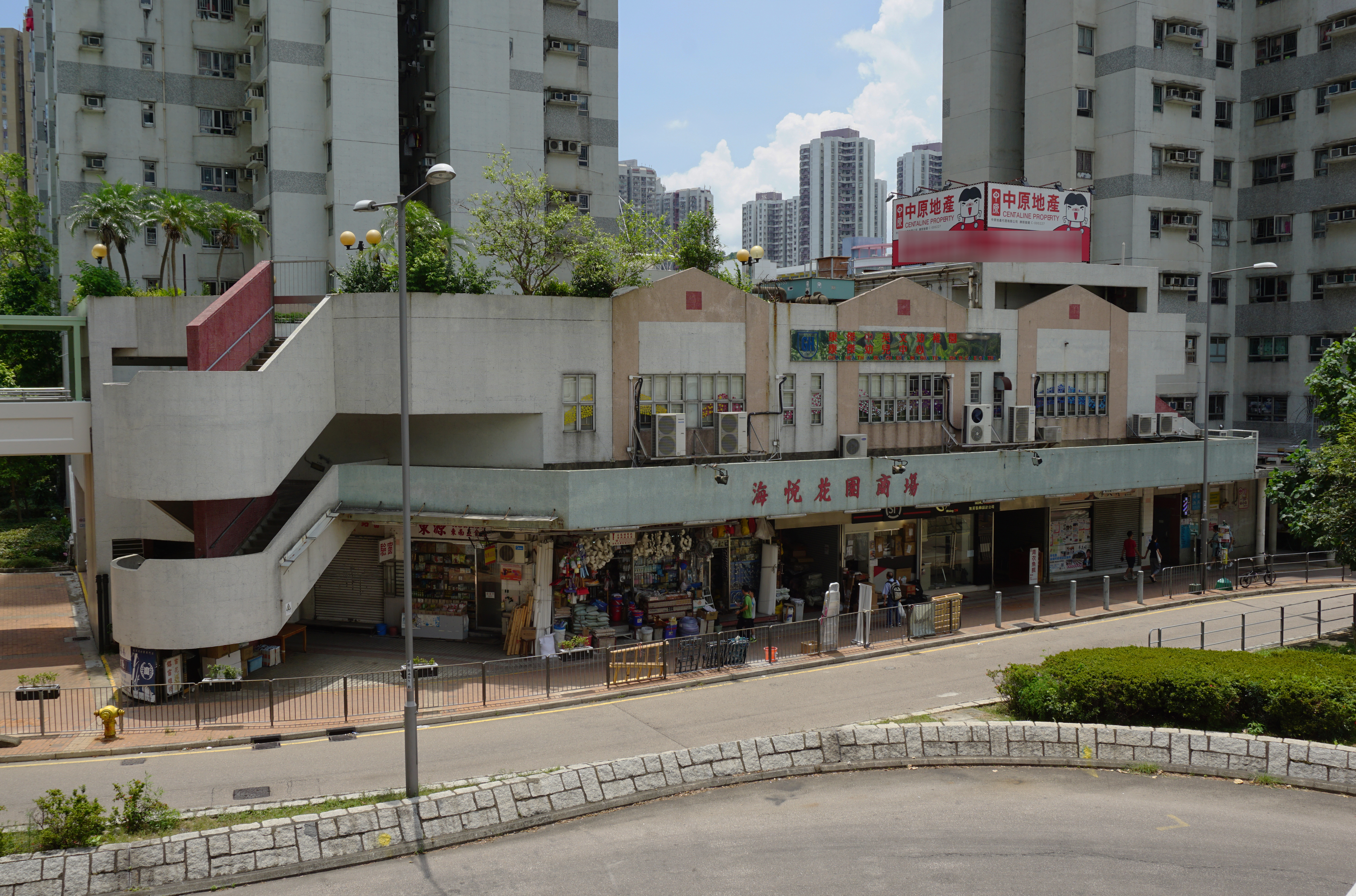 Serene Garden Shopping Arcade in Tsing Yi, Hong Kong.